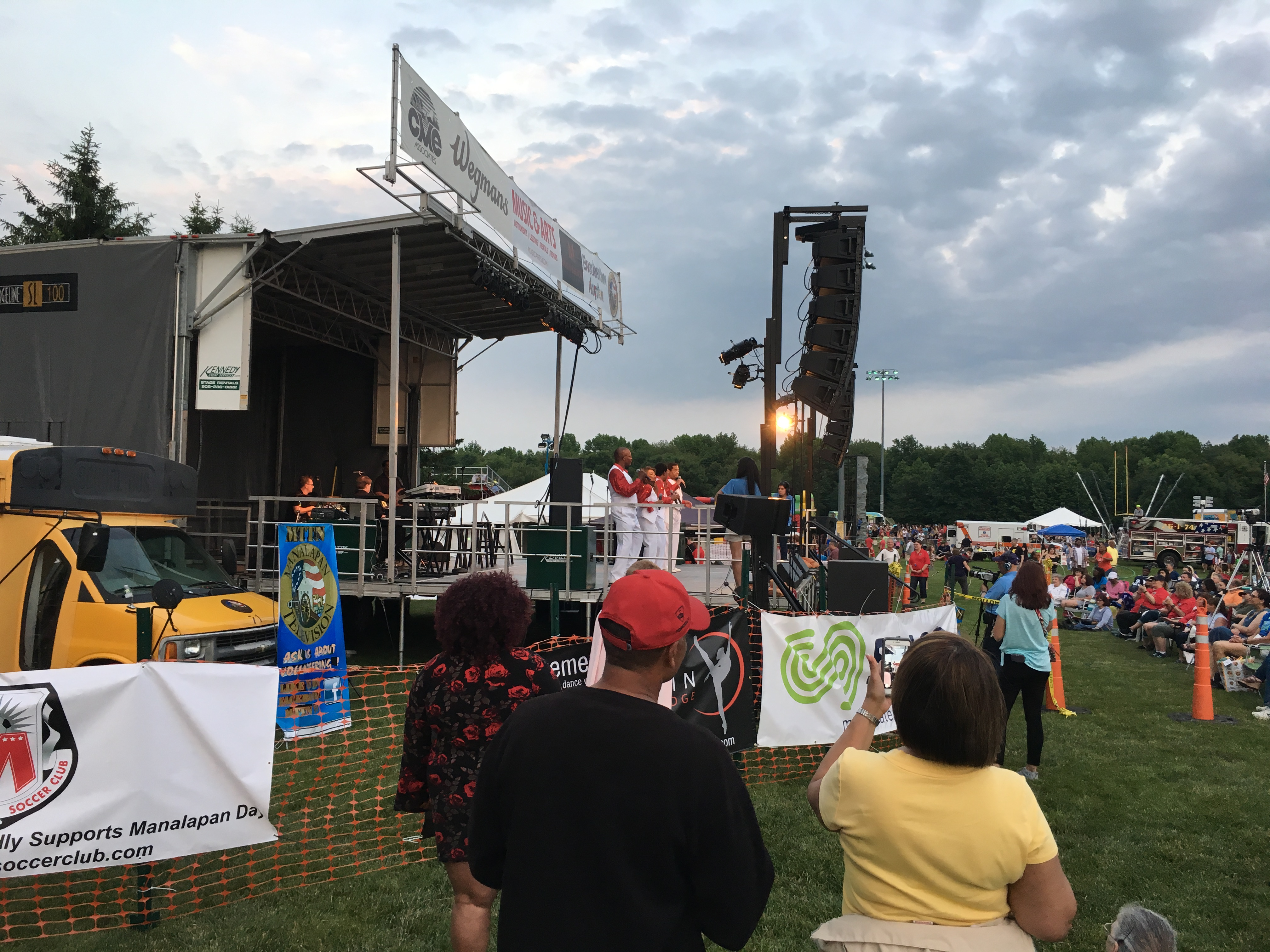 Florence LaRue and the 5th Dimension playing a free outdoor concert as part of the Manalapan Day 2018 event at the Manalapan Recreation Center in Manalapan, New Jersey.